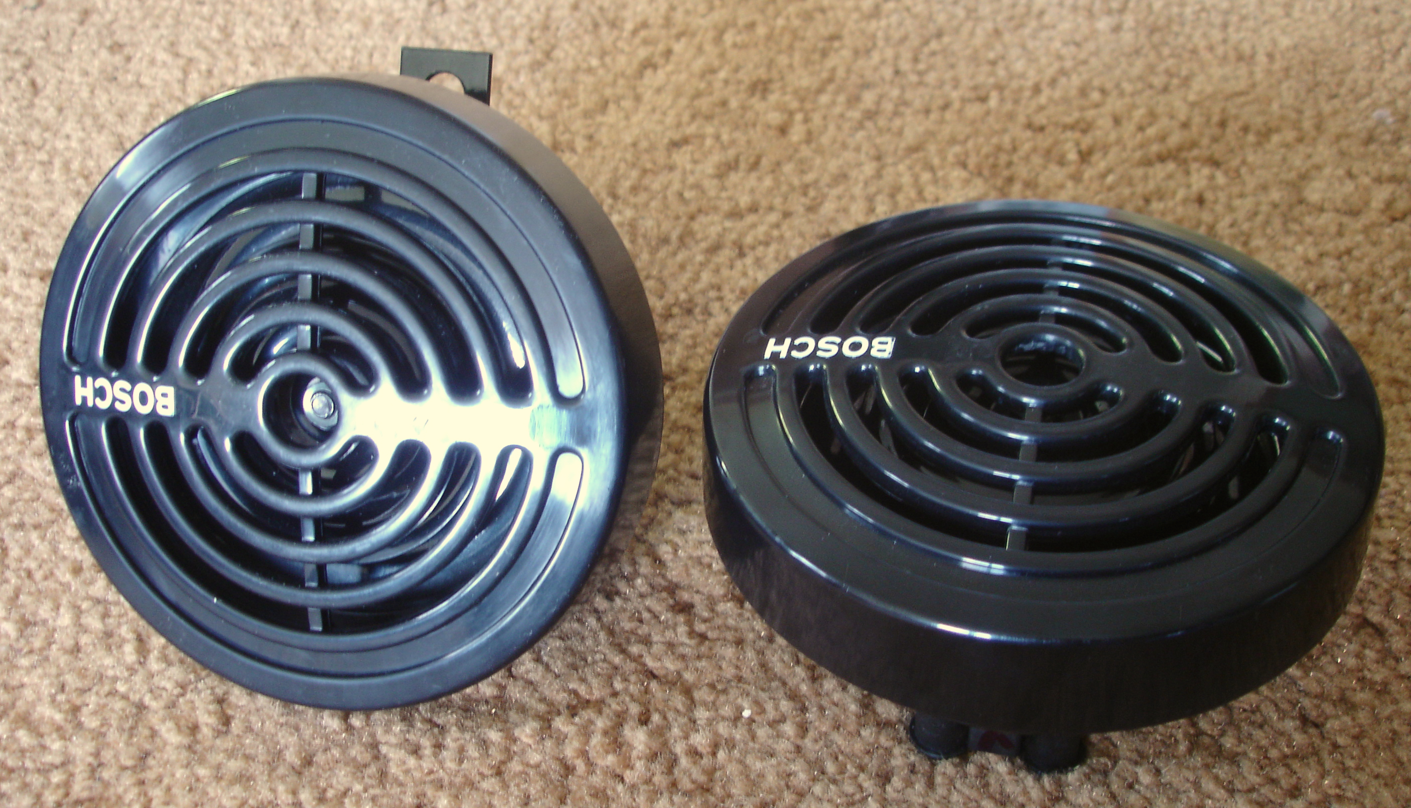 Bosch Europa Supertone car horns. 12 volts DC. 300Hz and 375Hz dual tone. 115 decibels. Black grille. Front view.